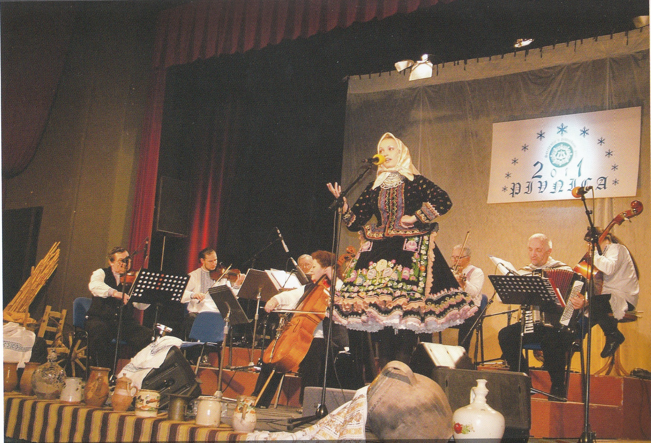 A photograph of an ensemble on stage during Slovak folk songs festival "Susreti u pivničkom polju" in Pivnice (Vojvodina, Serbia). Taken from the monograph Slováci v Srbsku z aspektu kultúry. Srpski (latinica): Fotografija ansambla na festivalu slovačkih izvornih pesama "Susreti u pivničkom polju" koji se održava u Pivnicama. Preuzeto iz monografije Slováci v Srbsku z aspektu kultúry.